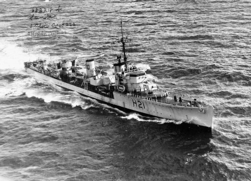 HMS Scimitar Underway.